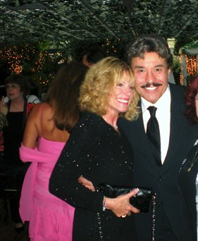 Singers Linda November and Tony Orlando, in Las Vegas